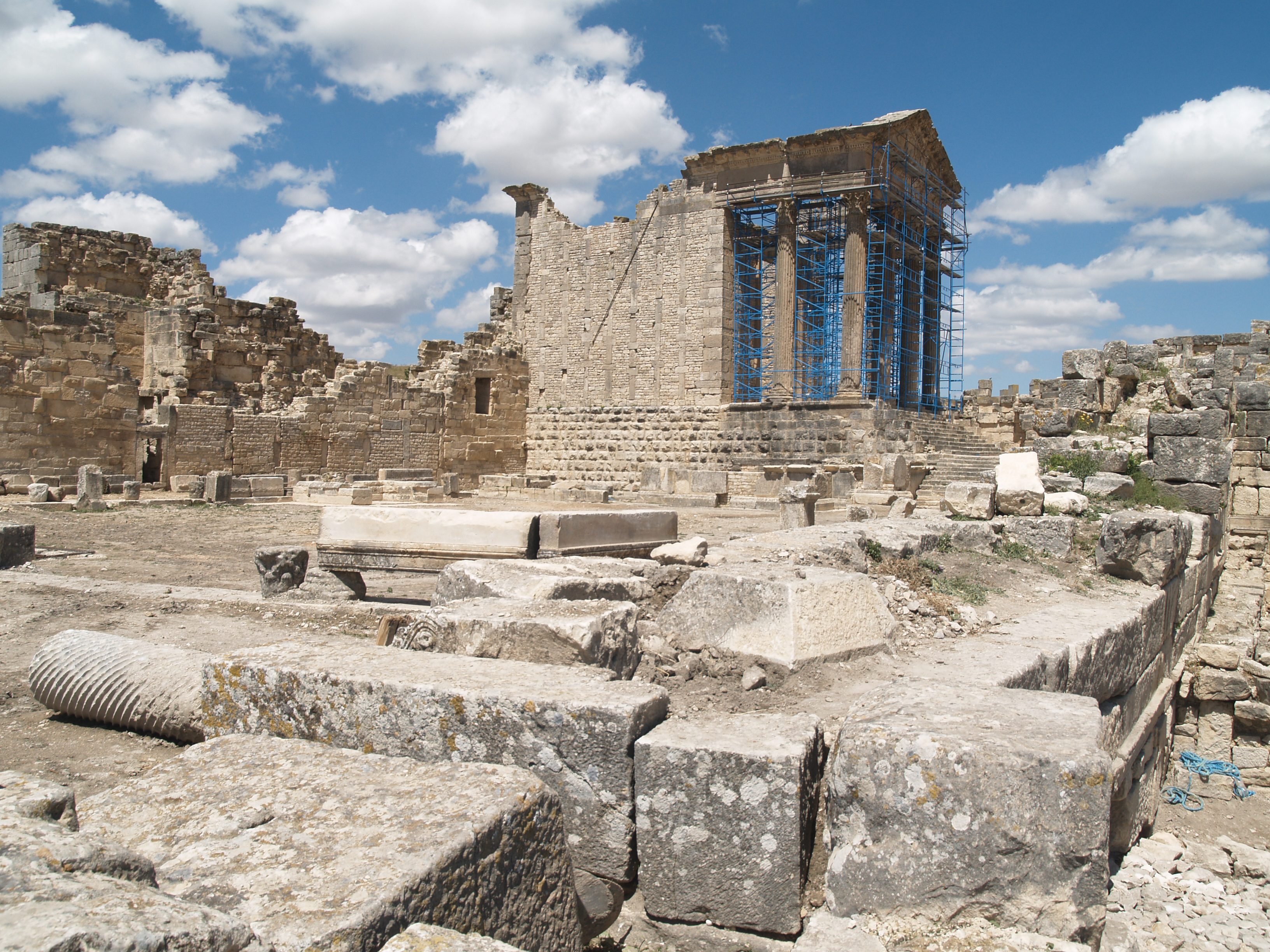 AWIB-ISAW: The Capital at Dougga (V) The Roman capital at Dougga, with the remains of the forum visible in the foreground. The capital was a temple dedicated to the protective triad of Jupiter Optimus Maximus, Juno Regina, and Minerva Augusta. by Graham Claytor (2007)